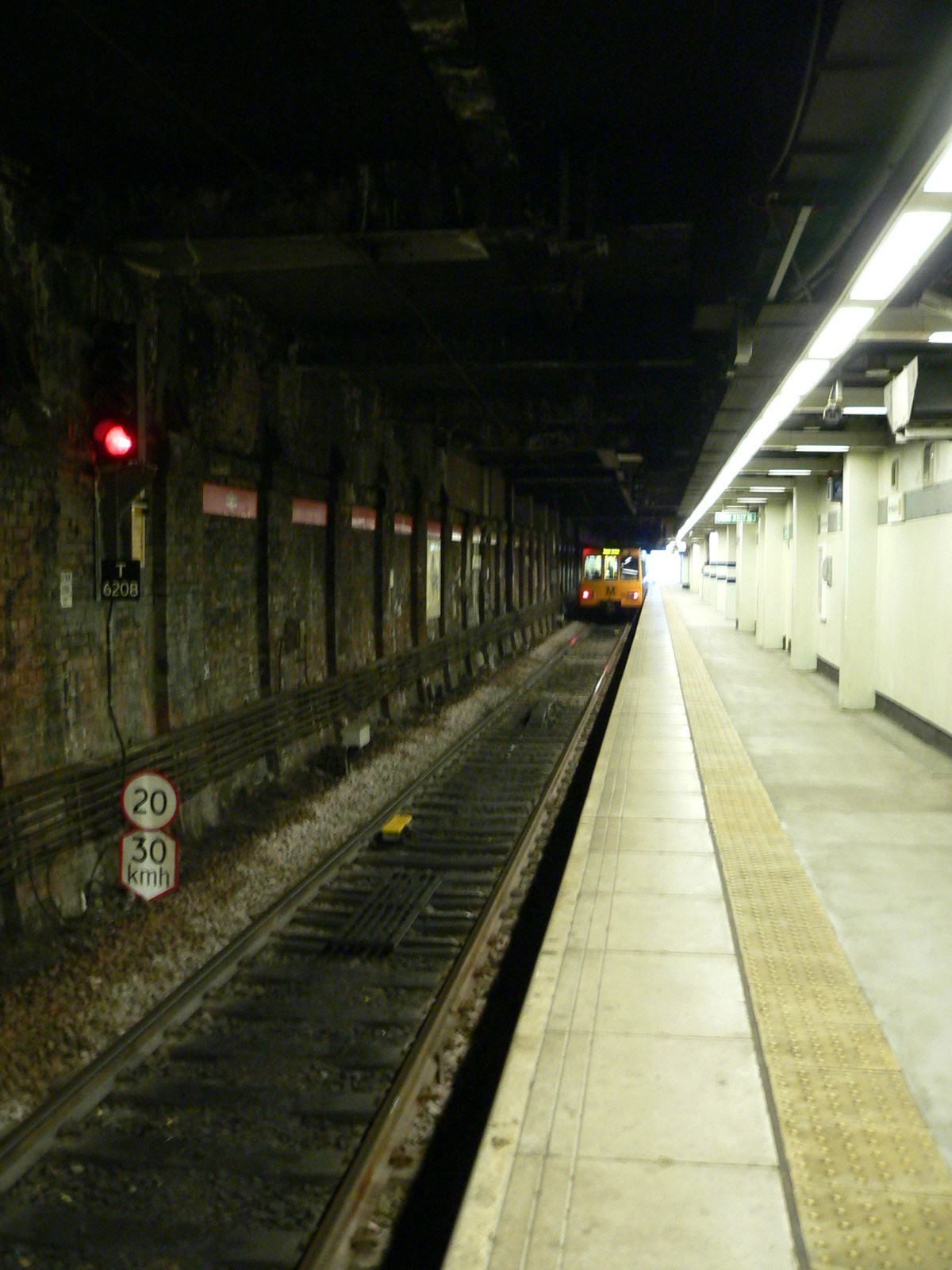 Sunderland station is shared between the Tyne and Wear Metro system and mainline services. The signal half way along the western platform marks the divide between Metro (behind) and Mainline (infront) stopping areas. The train in the distance is a northbound Yellow line Metro service towards Newcaslte.